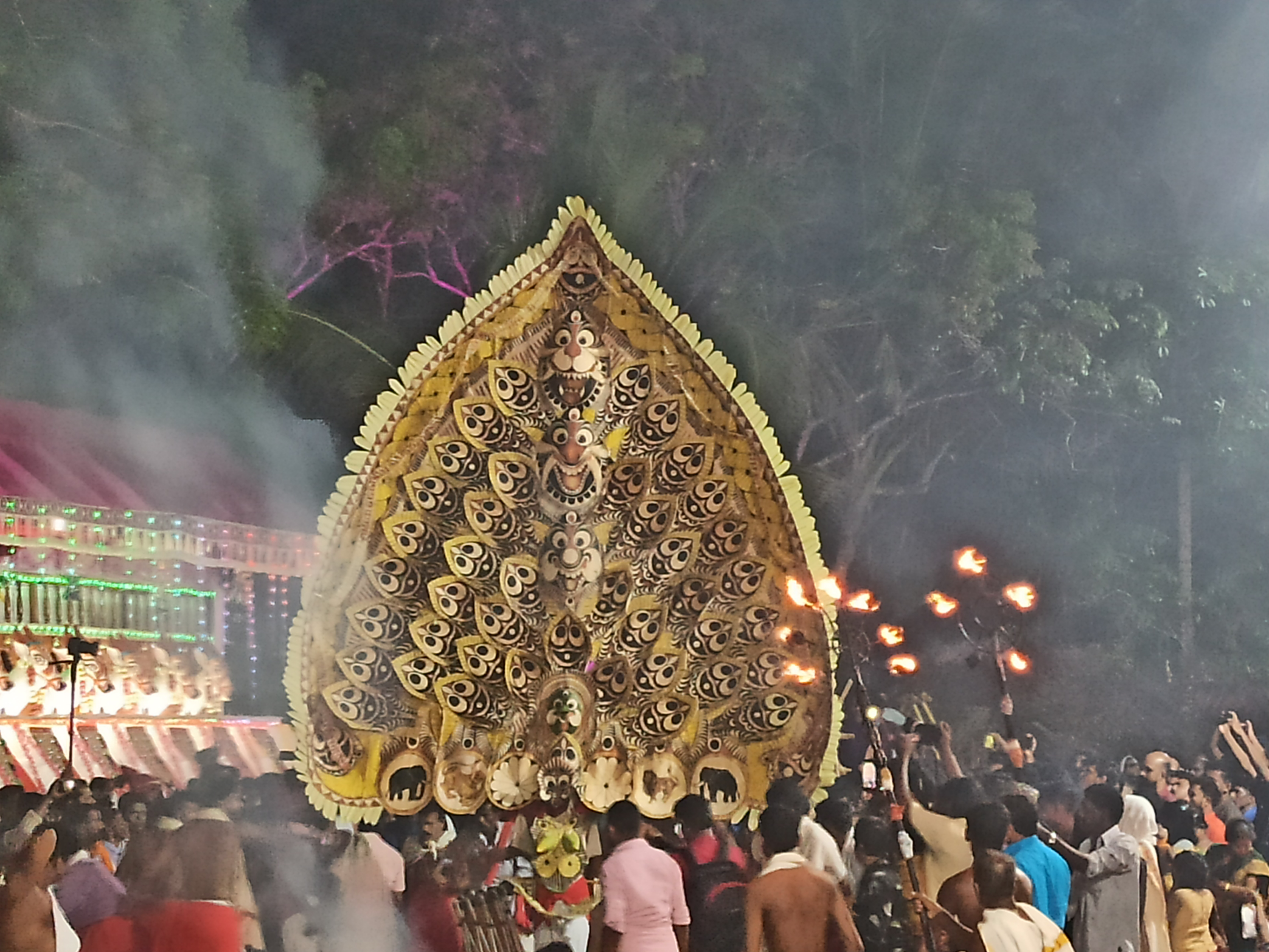 This is the 101 Pala Bhairavi Kolam which is seen in the padayani in Kerala This photo has been taken in the country: India